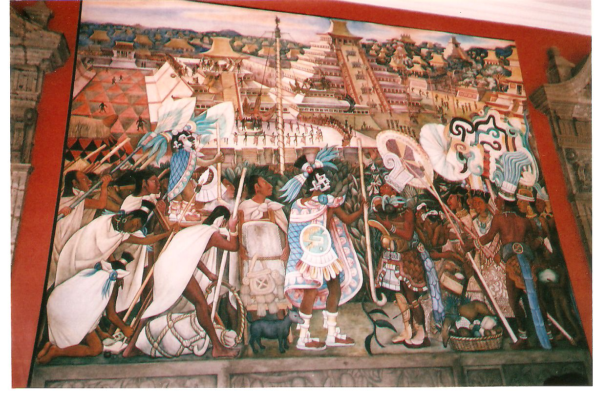 Totonac Civilization, 1950. Celebrations and ceremonies Totonaca Culture; One of the murals of Diego Rivera at the National Palace, Mexico City.